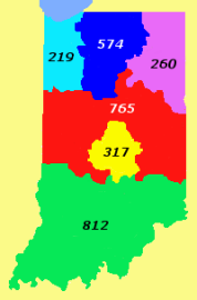 Map showing area codes for the state of Indiana in 6 colors.